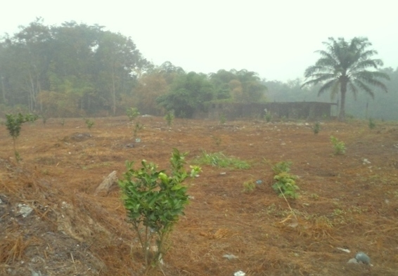 Tree planting project. Isoko South Local Government. Delta State, Nigeria